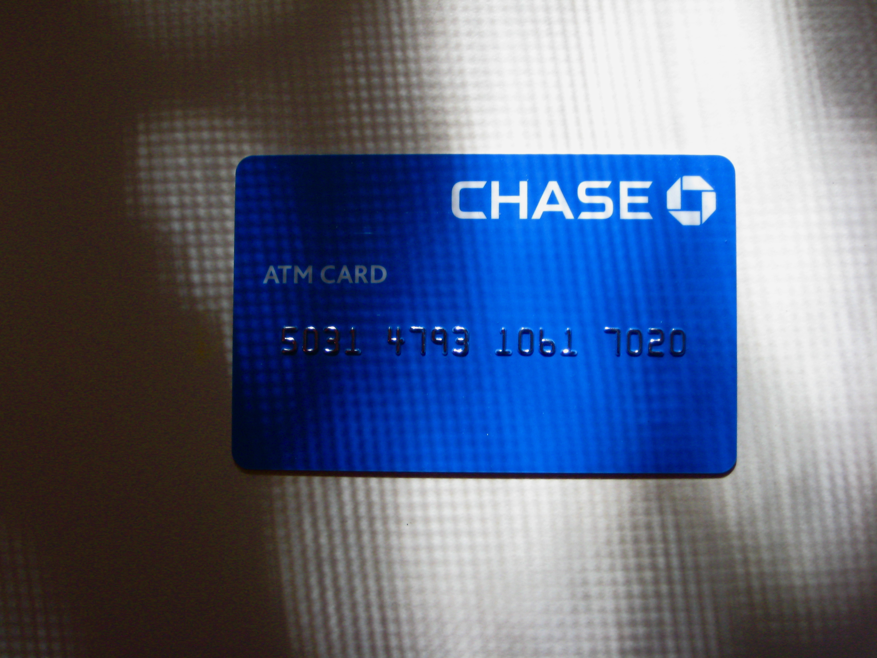 Chase ATM card